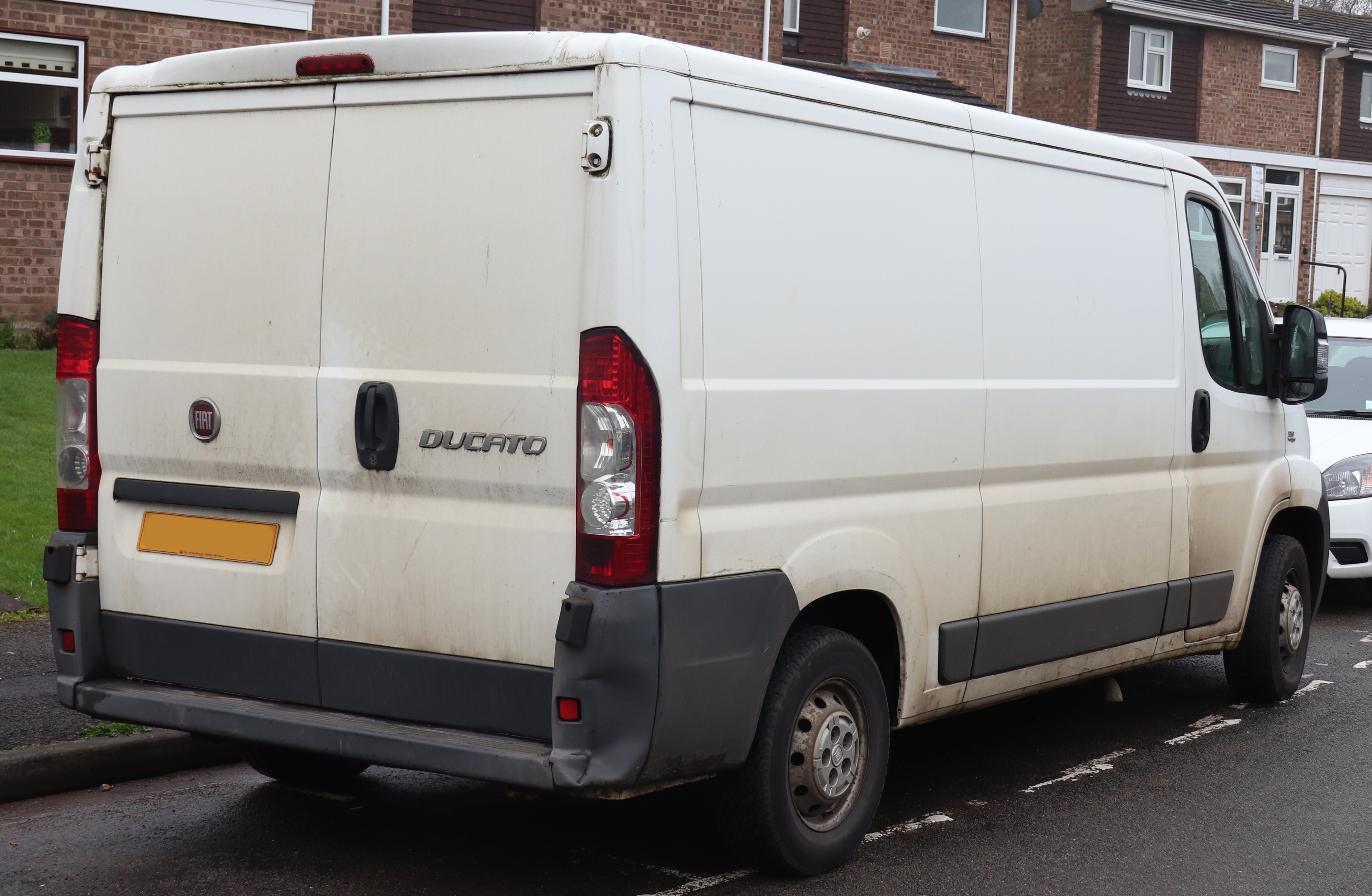 2008 Fiat Ducato 33 120 Multijet MWB 2.3 Rear Taken in Warwick